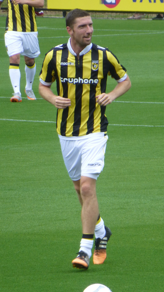 Arnold Kruiswijk at the Papendal training grounds of Vitesse on 28 June 2015